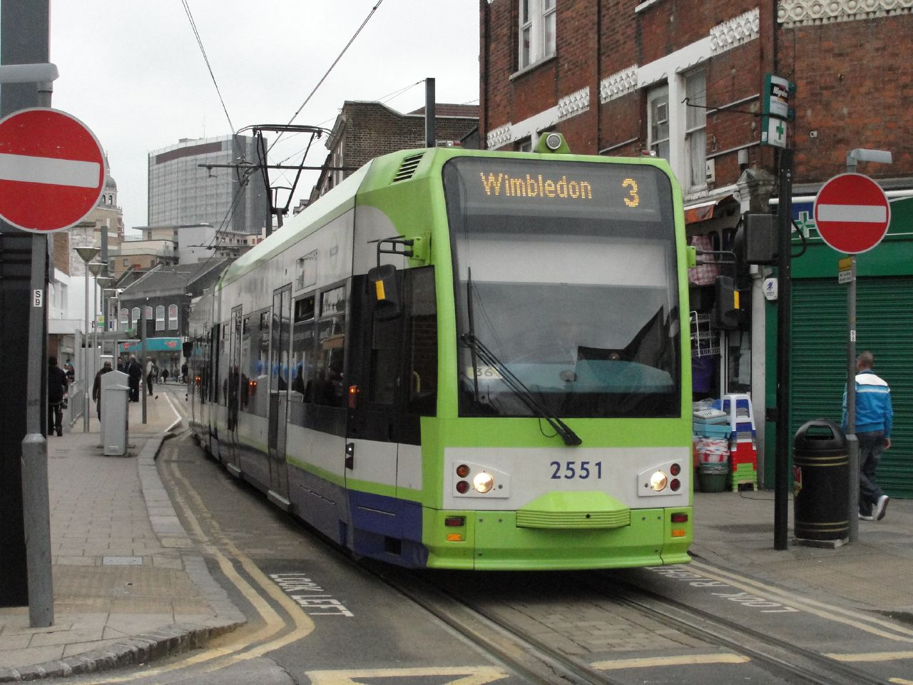 Tram